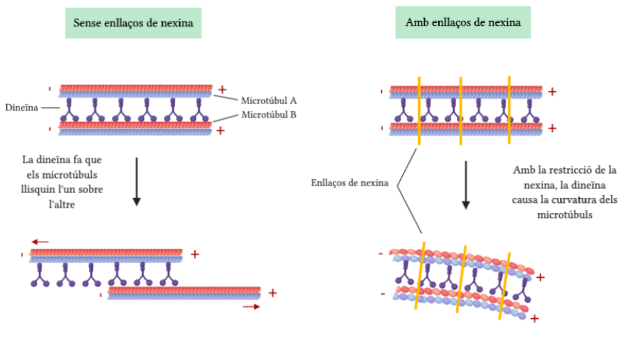 Nexin link plays a very important role in the microtubule bending in flagellum and cilium.